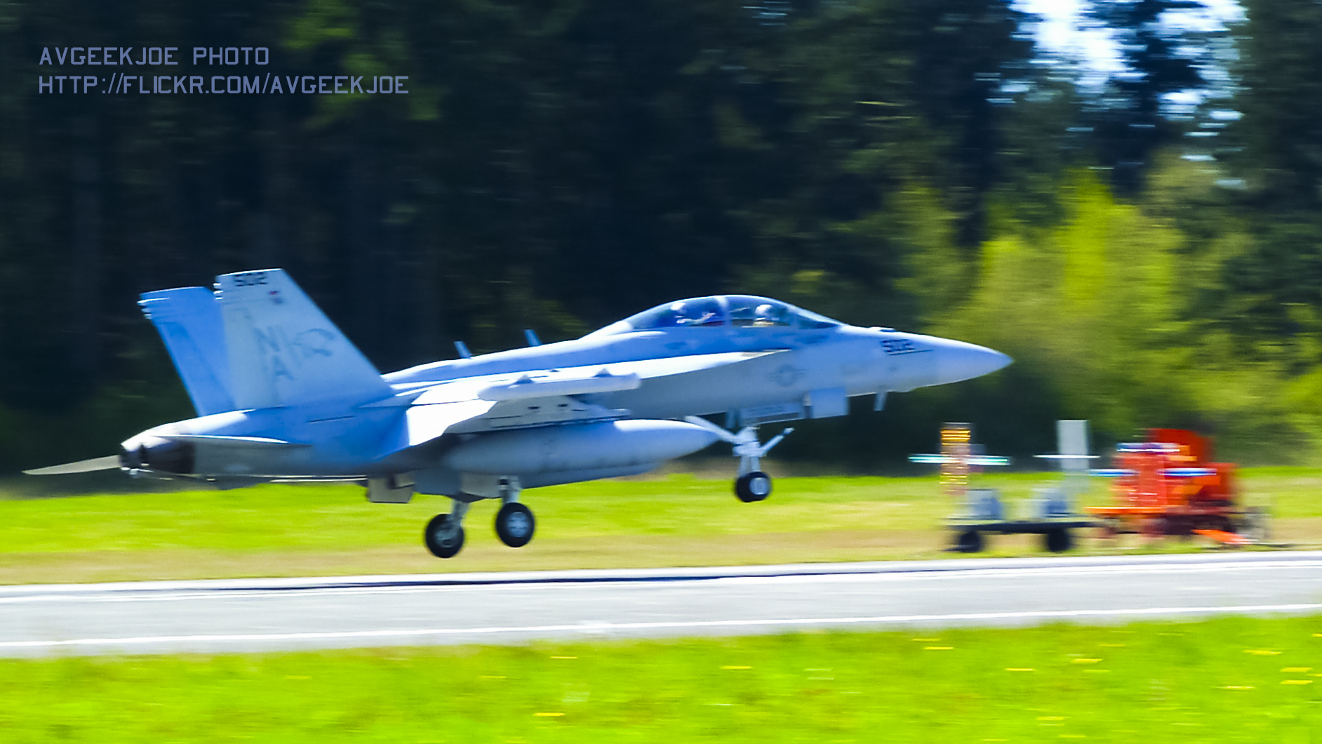 Picture is of a VAQ-139 Cougars Boeing EA-18G Growler buzzing by the IFLOLS lights of OLF Coupeville (aka Naval Outlying Field Coupeville). OLF Coupeville is for naval aviators to practice touches and goes before going out to aircraft carriers.